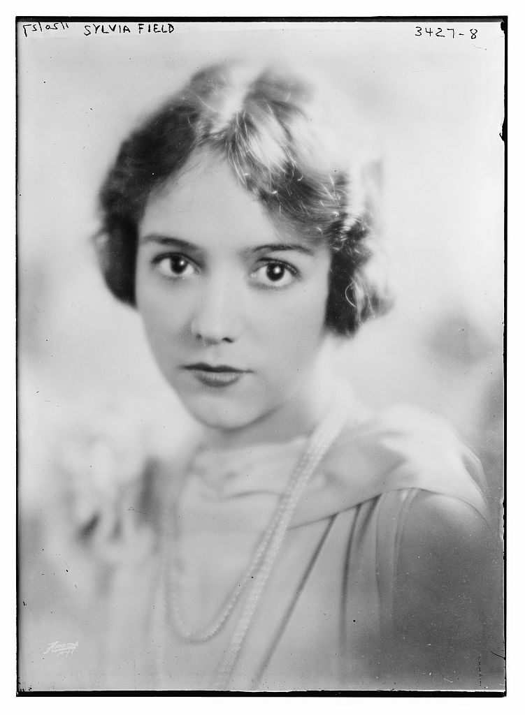 Photograph shows actress Sylvia Field (1901-1998) who starred in the play "Broadway" in 1927. (Source: Flickr Commons project, 2012)